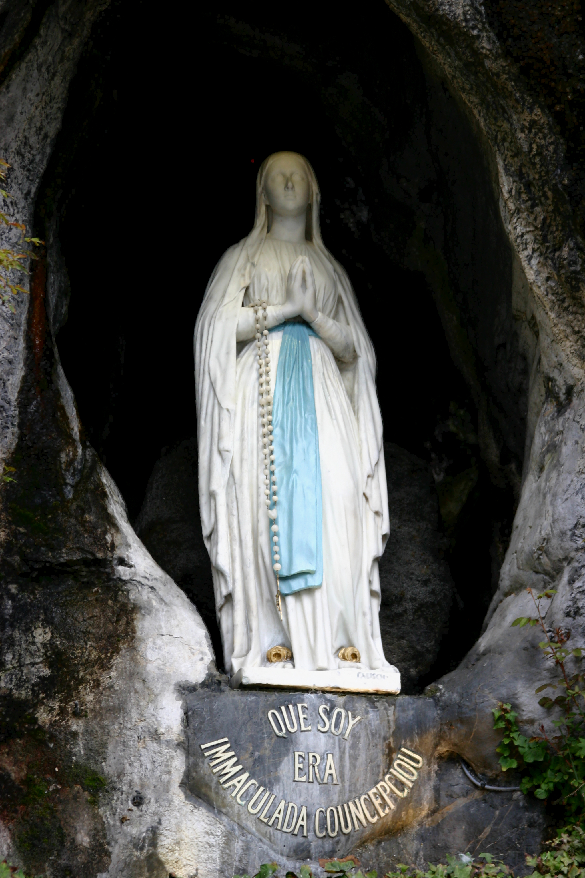 Grotto of Lourdes